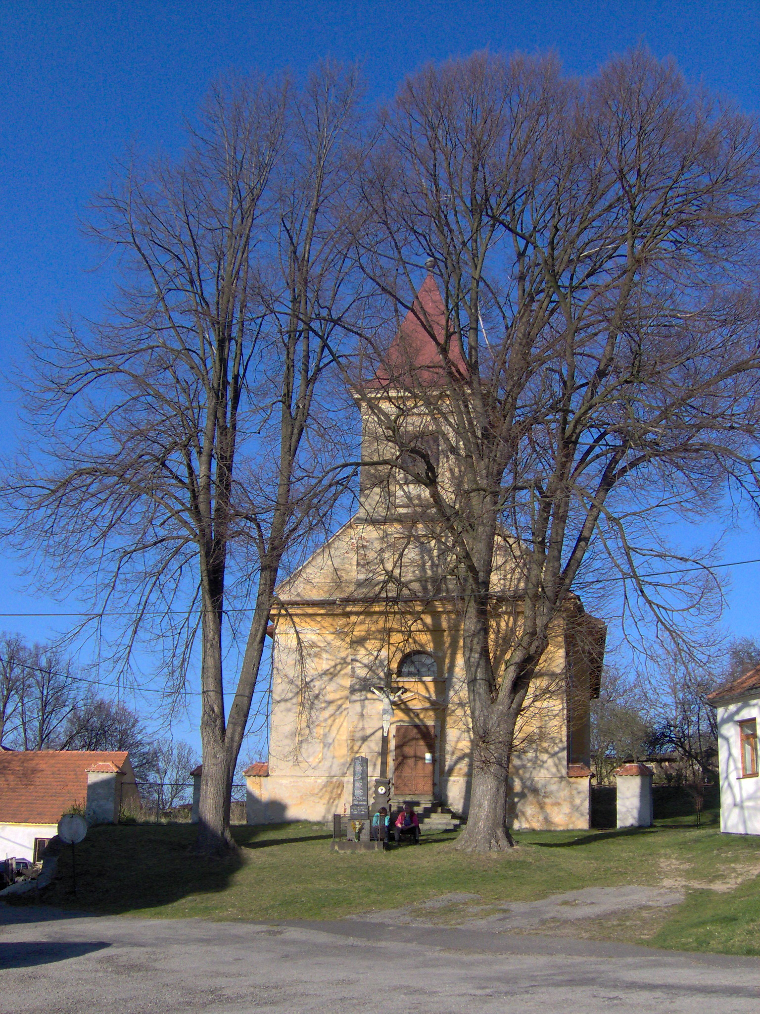 Church in Paračov, Strakonice District, Czech republic